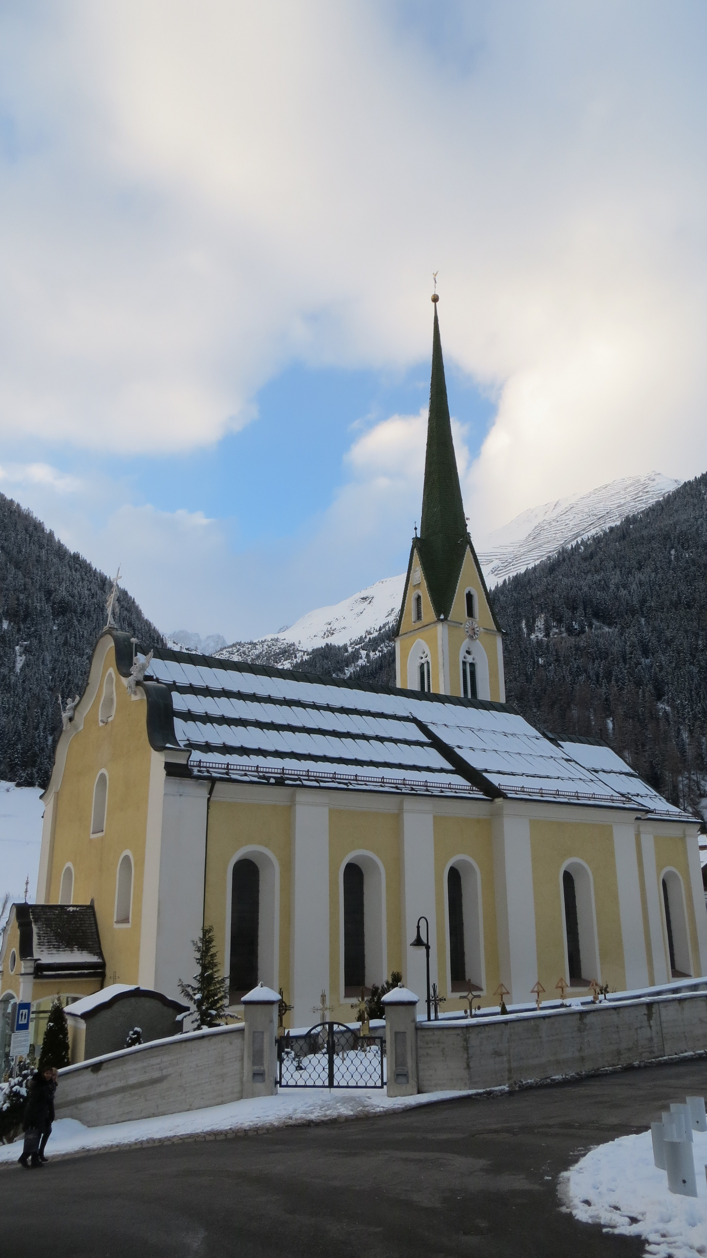 Church in center of Ischgl, Tirol, Austria in winter